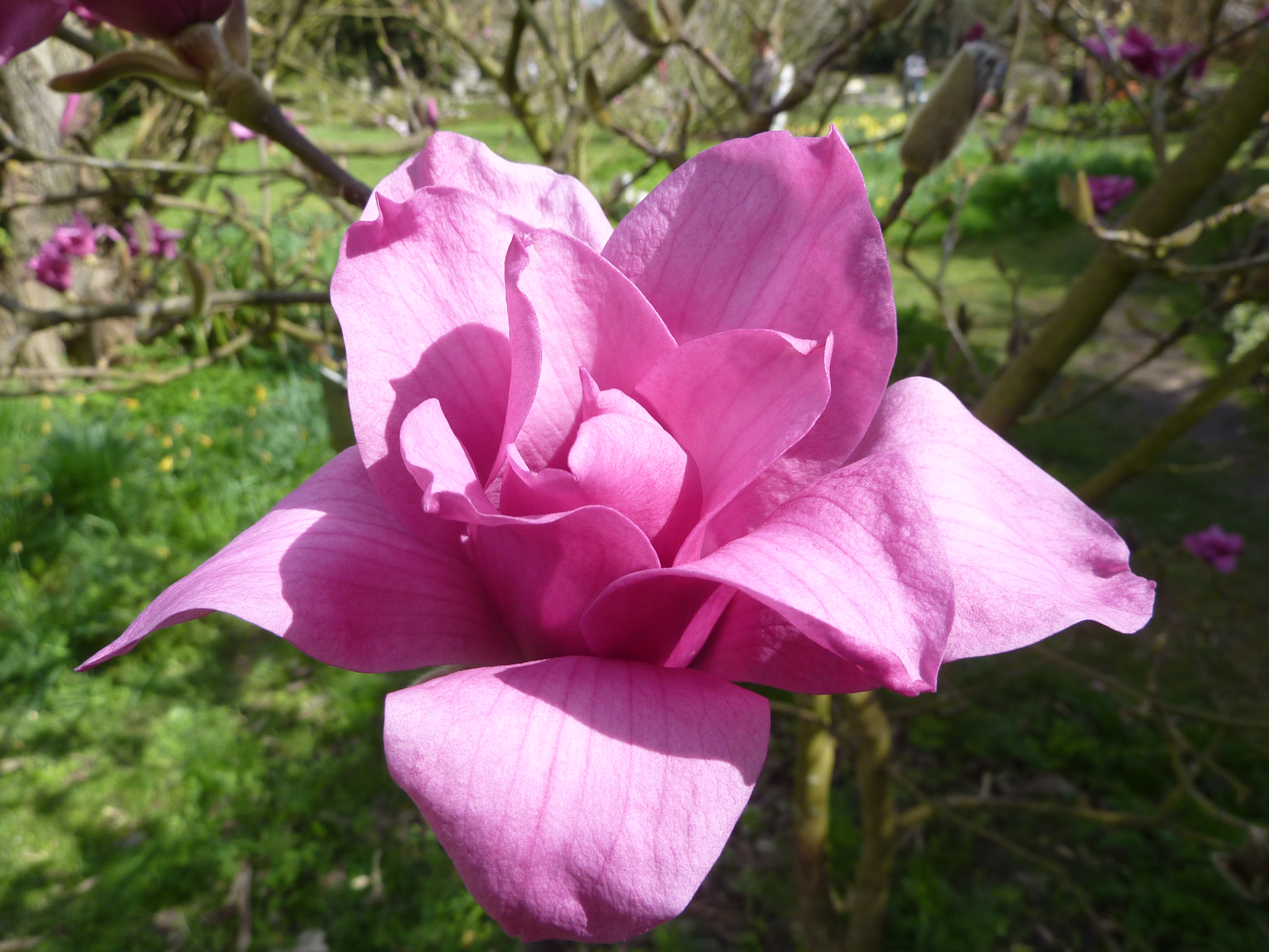 Taken in the Cambridge University Botanic Garden.